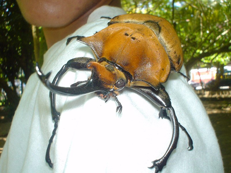 An Elephant beetle (Megasoma elephas) crawling on someone's shoulder in Limón, Costa Rica